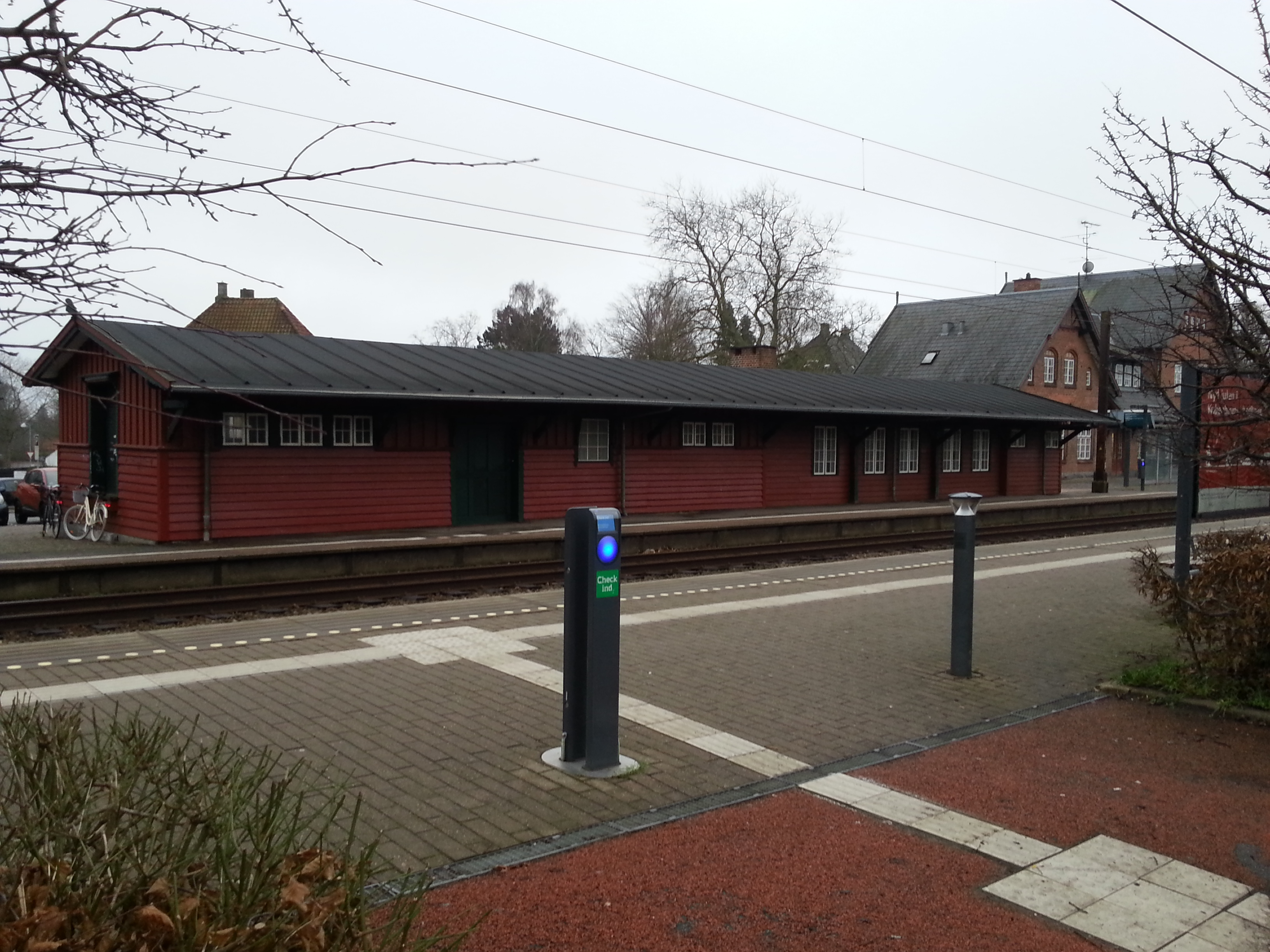 Espergærde Station. Old post office.